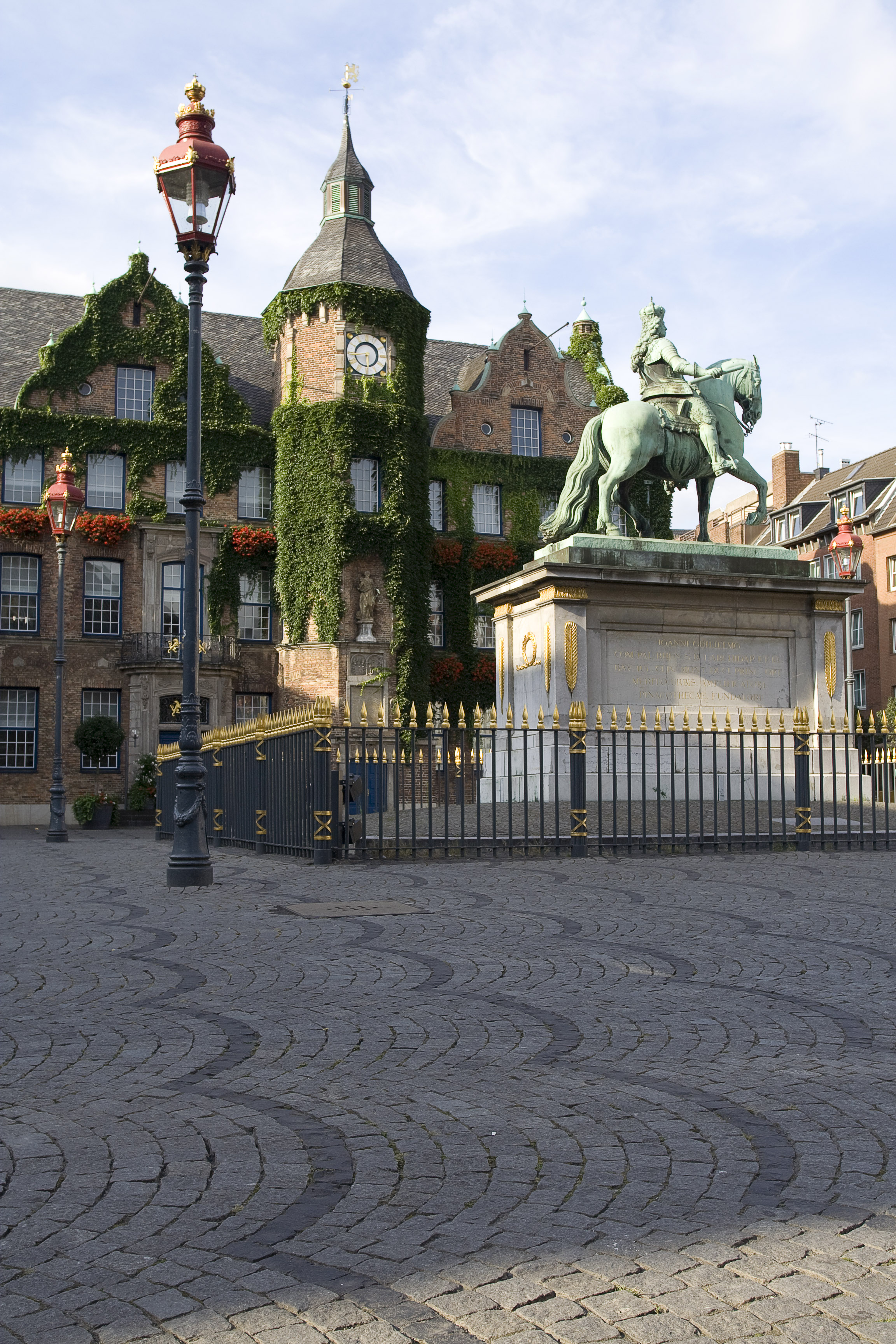 A view of the Radhausplatz in the Altstadt of Düsseldorf, Germany.